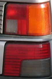 Peugeot 205 Lights.